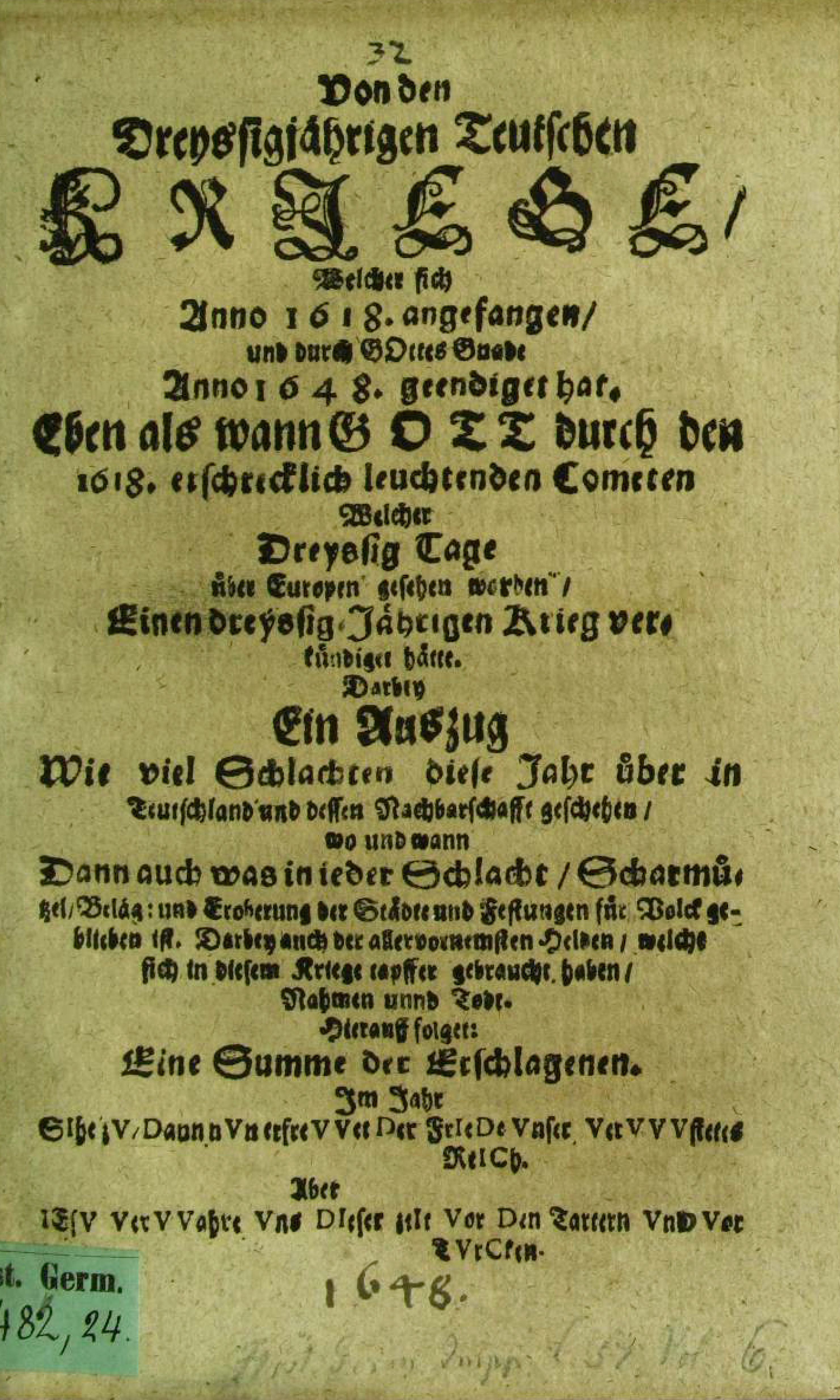 Title page from "Von dem Dreyssigjährigen Deutschen Kriege" (1648)